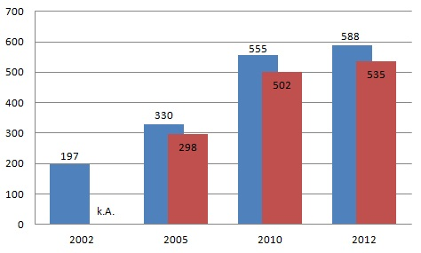 ezb (= electronical journal library)